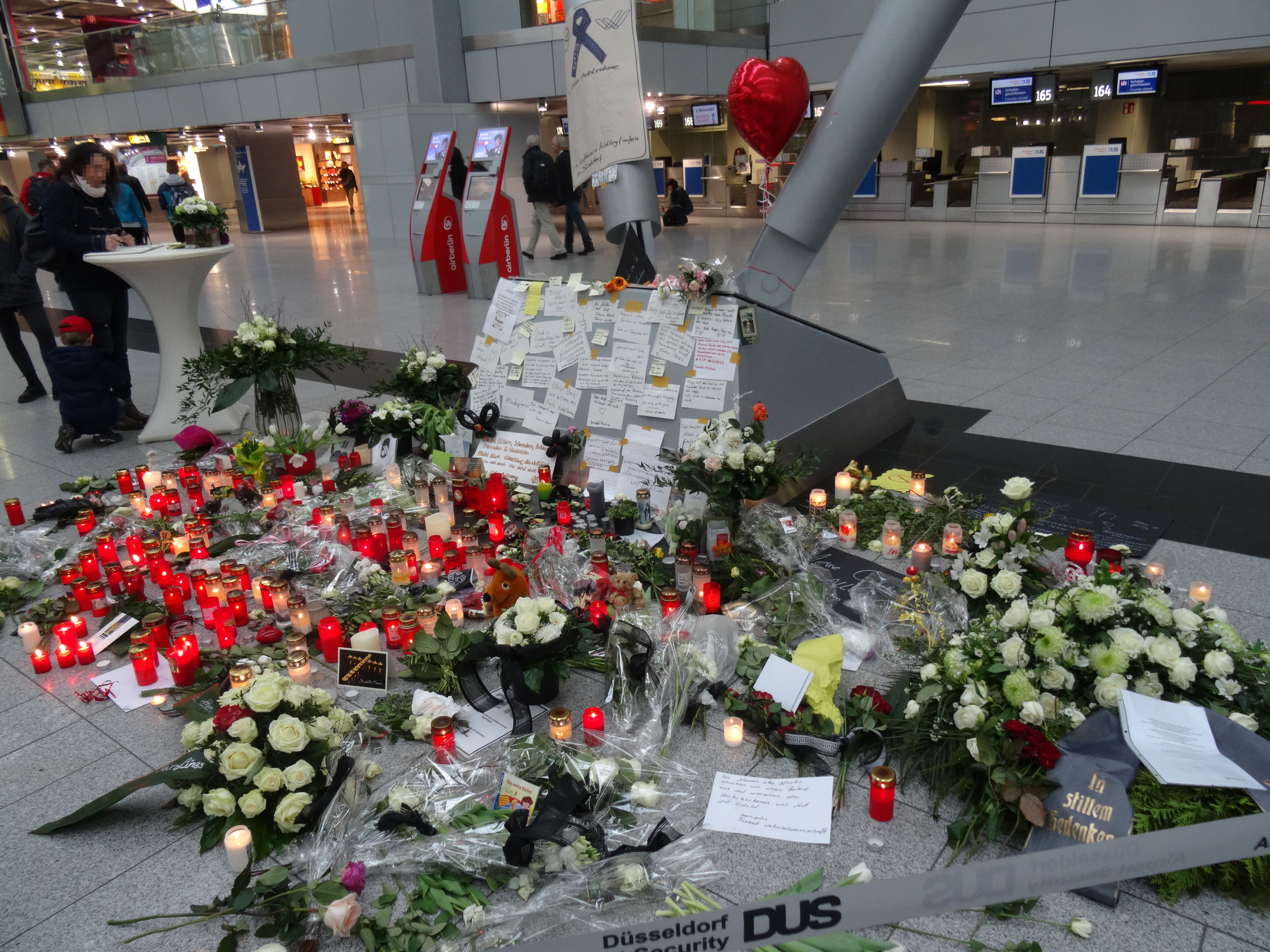 A memorial of flowers and candles at Düsseldorf Airport for victims of 4U9525.